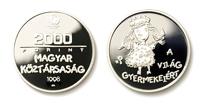 For the Children of the World, collector coin made of silver, struck, 1998. Designer: Laszlo Szlavics, Jr.